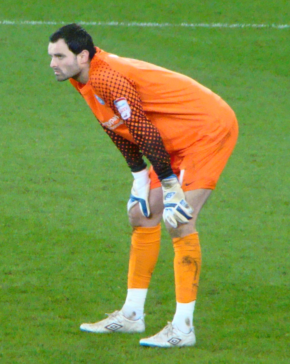 14/02/12 Cardiff V Peterborough, Championship, Cardiff City Stadium, Cardiff, Wales